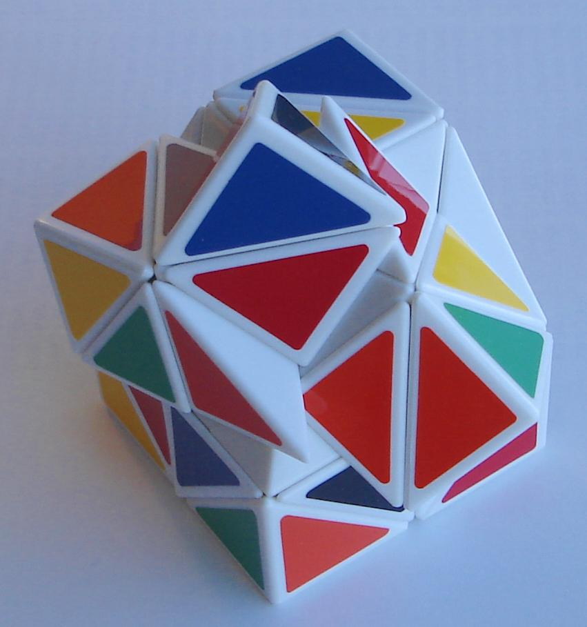 Helicopter Cube, a jumbling twist.